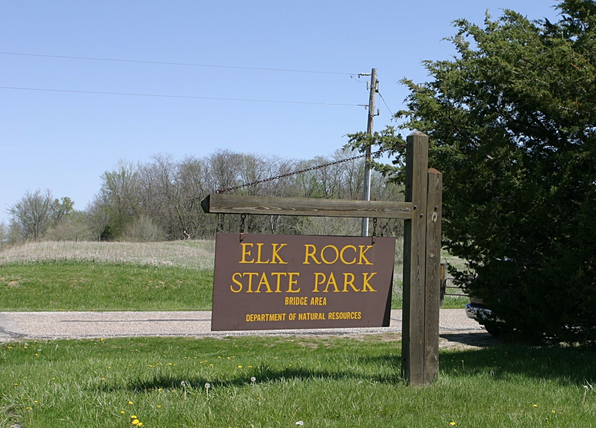 Sign for the bridge area of the Elk Rock State Park in Iowa.